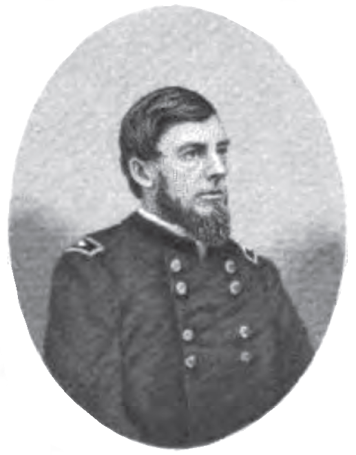 An Ohio General and politician named Benjamin Rush Cowen